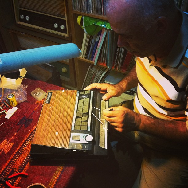 “Testing my Stylophone 350s with Master Abu Ali #vintage #music #organ #instrument #arabic #70s”